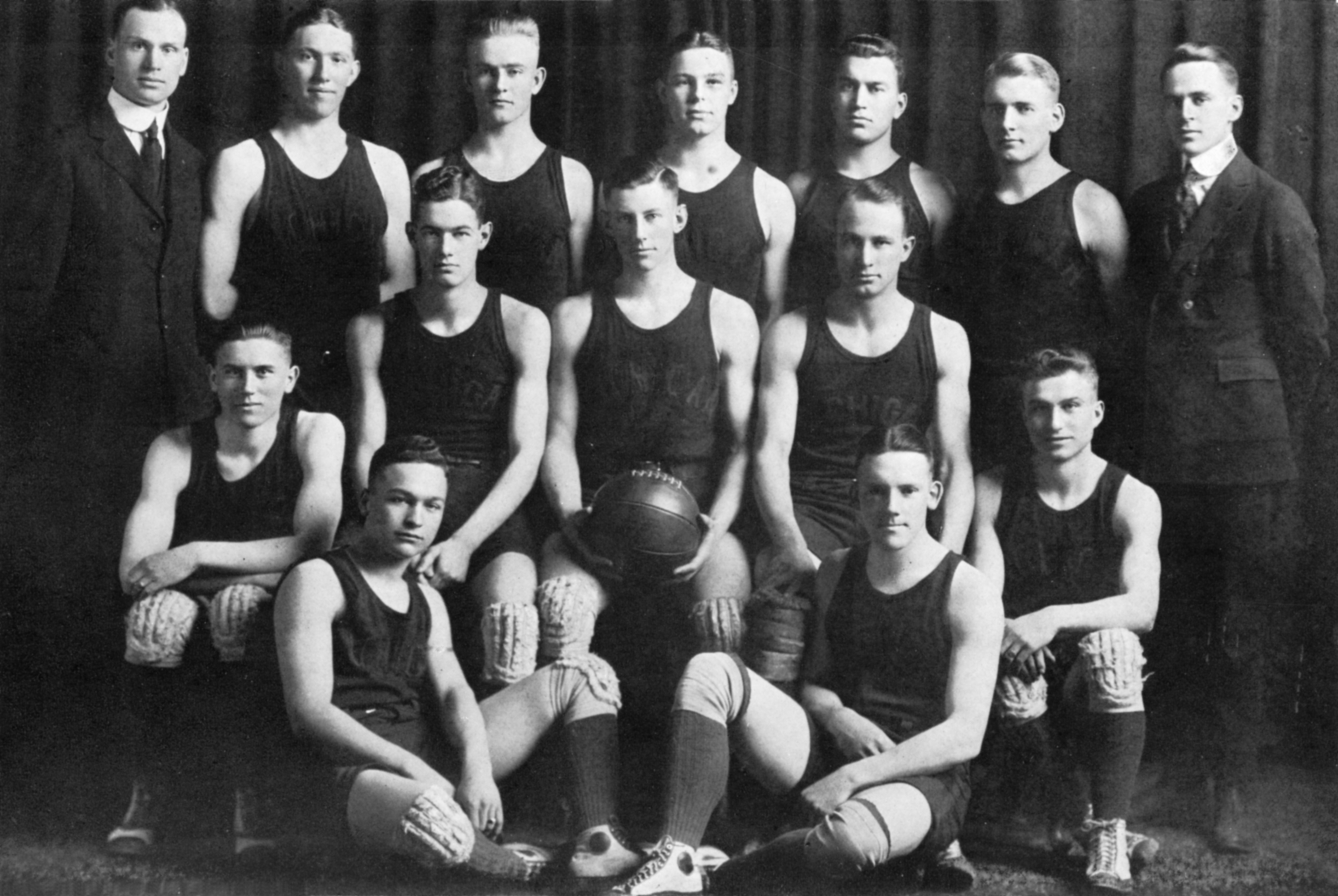 Portrait of the University of Michigan varsity basketball team 1917-1918